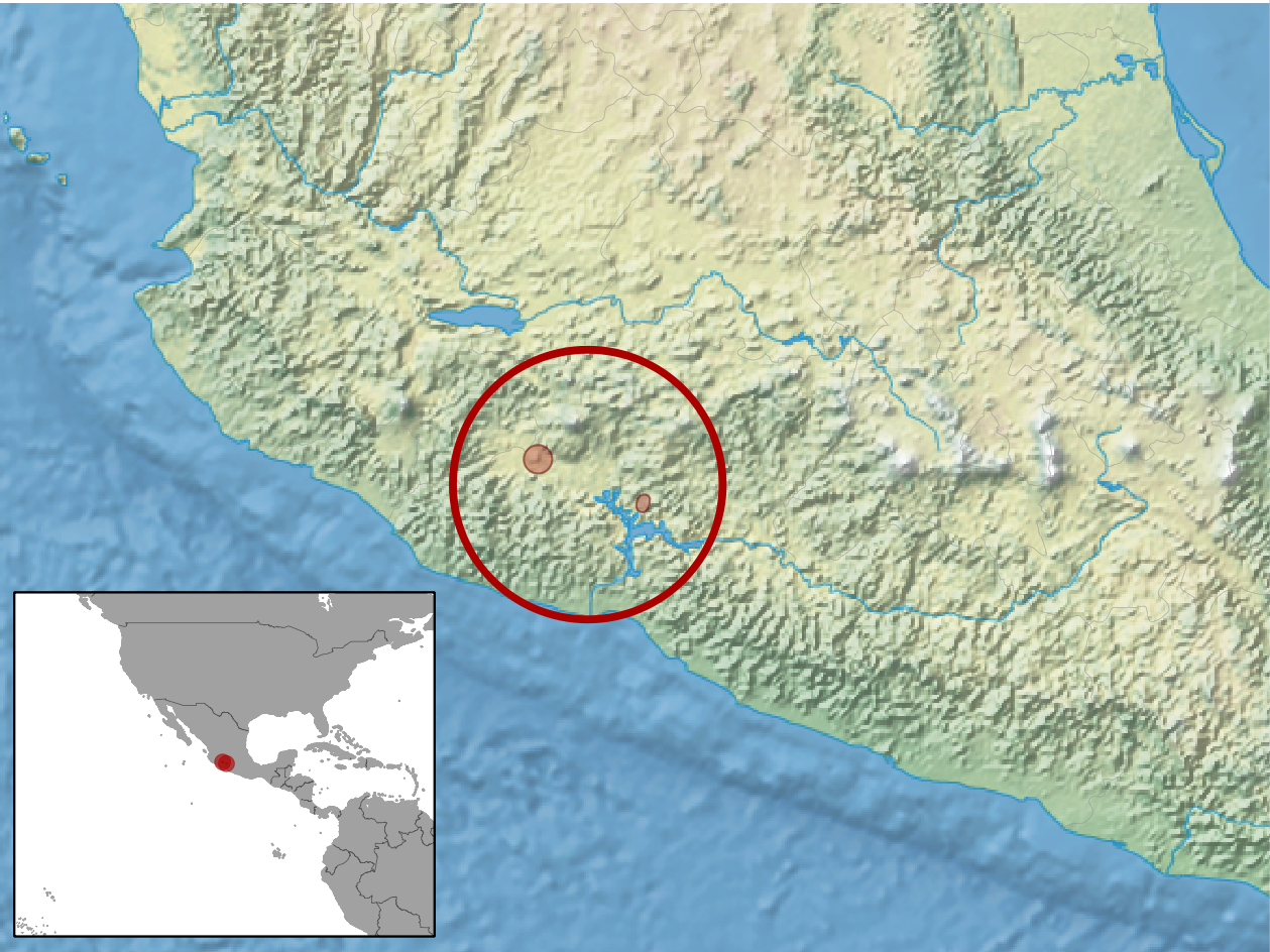 geographic distribution of Mesoscincus altamirani